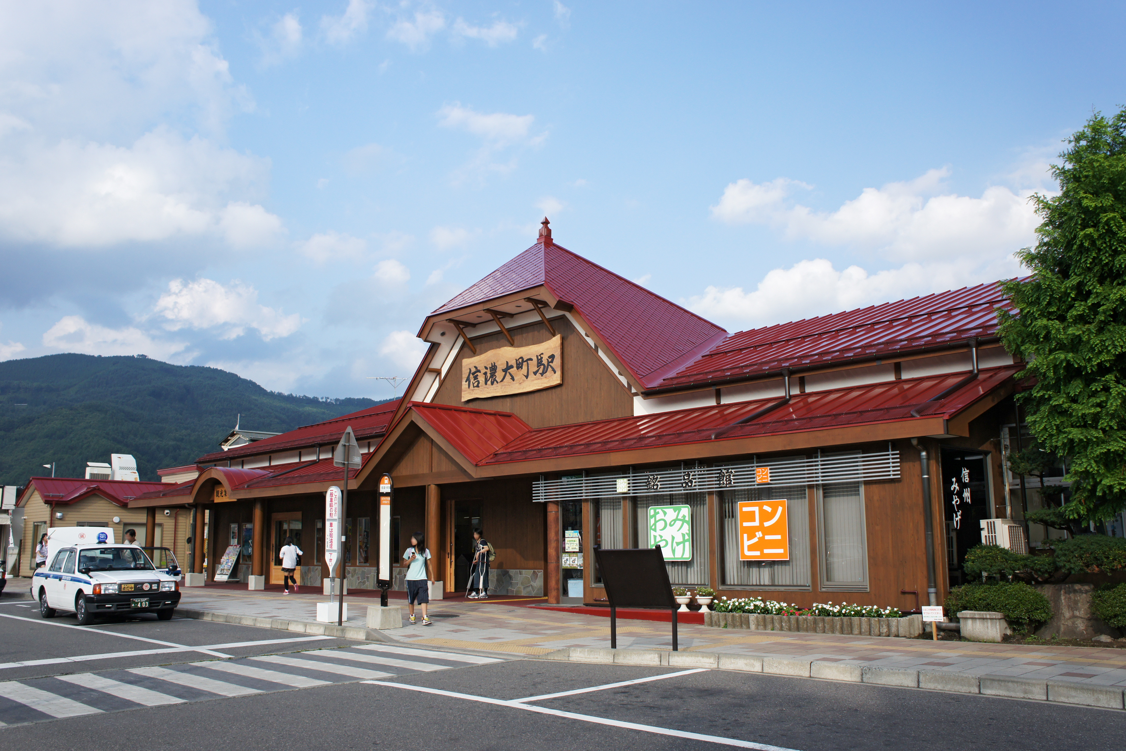 Shinano-Ōmachi Station in Ōmachi, Nagano prefecture, Japan.